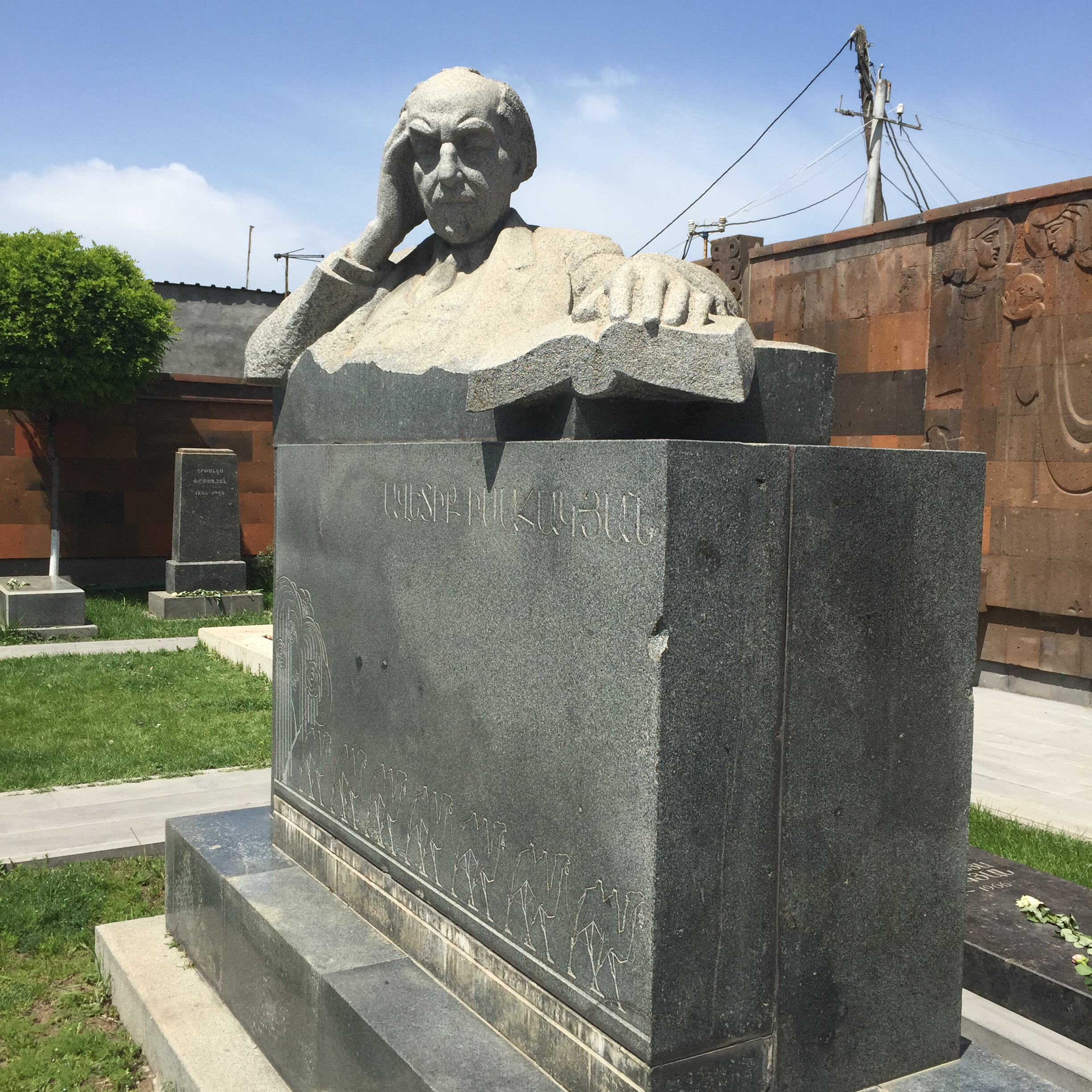 Avetik Isahakyan's tomb at Yerevan's Komitas Pantheon (Photo: Rupen Janbazian)